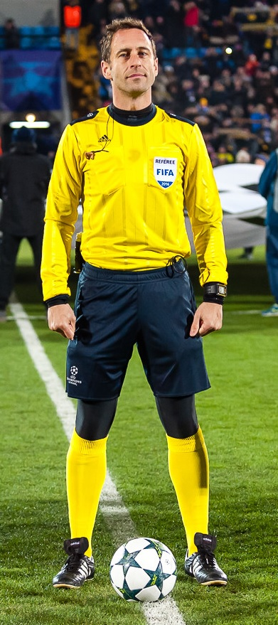 Artur Soares Dias before the Champions League game between FC Rostov and Bayern Munich.